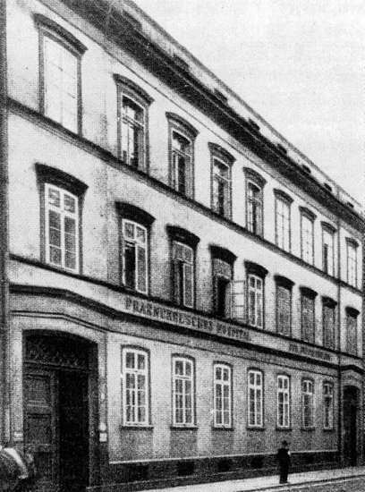 Jewish Hospital in Wrocław in St. Antoni Street